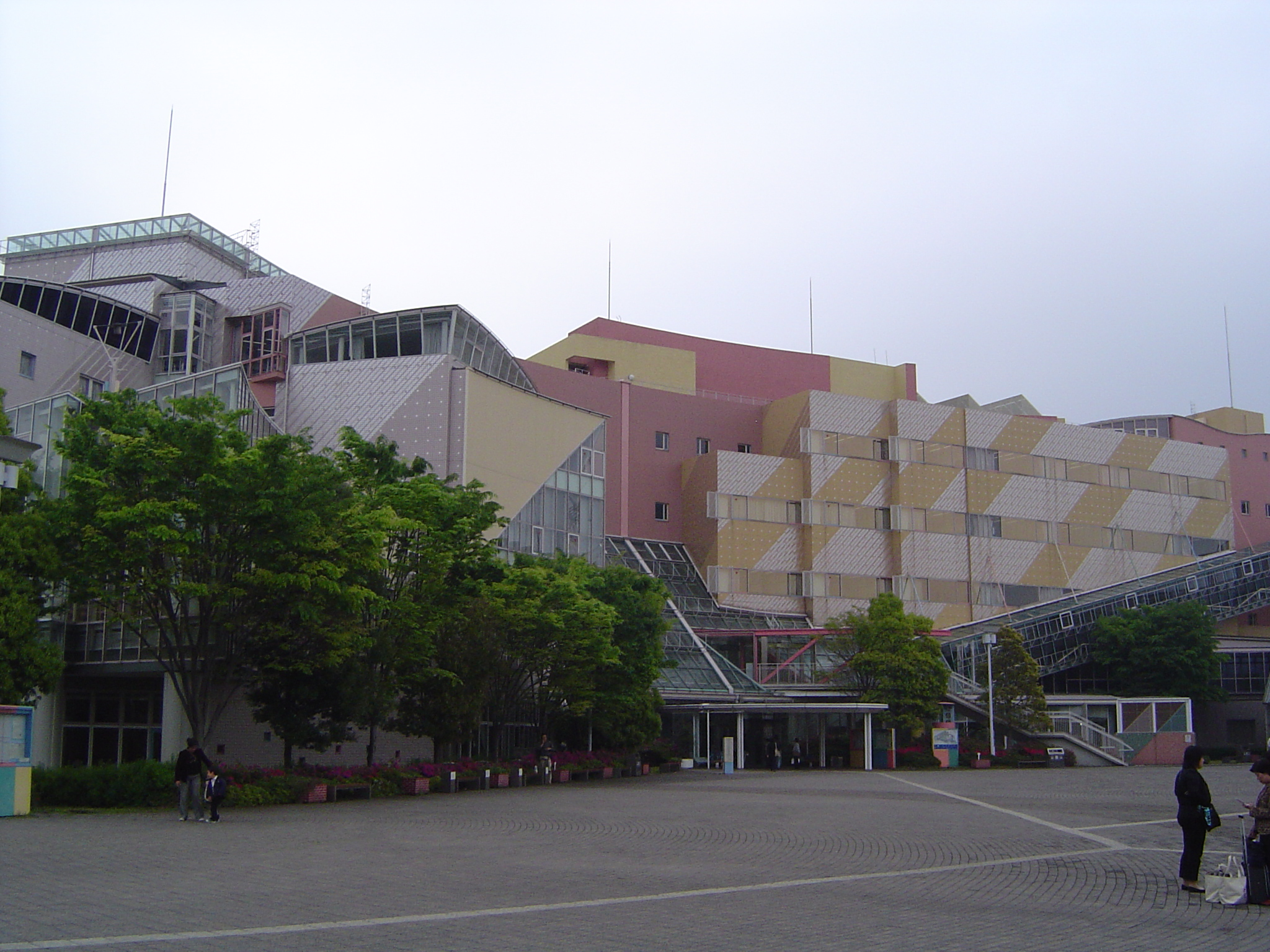 National Olympics Memorial Youth Center (NYC), Central Building